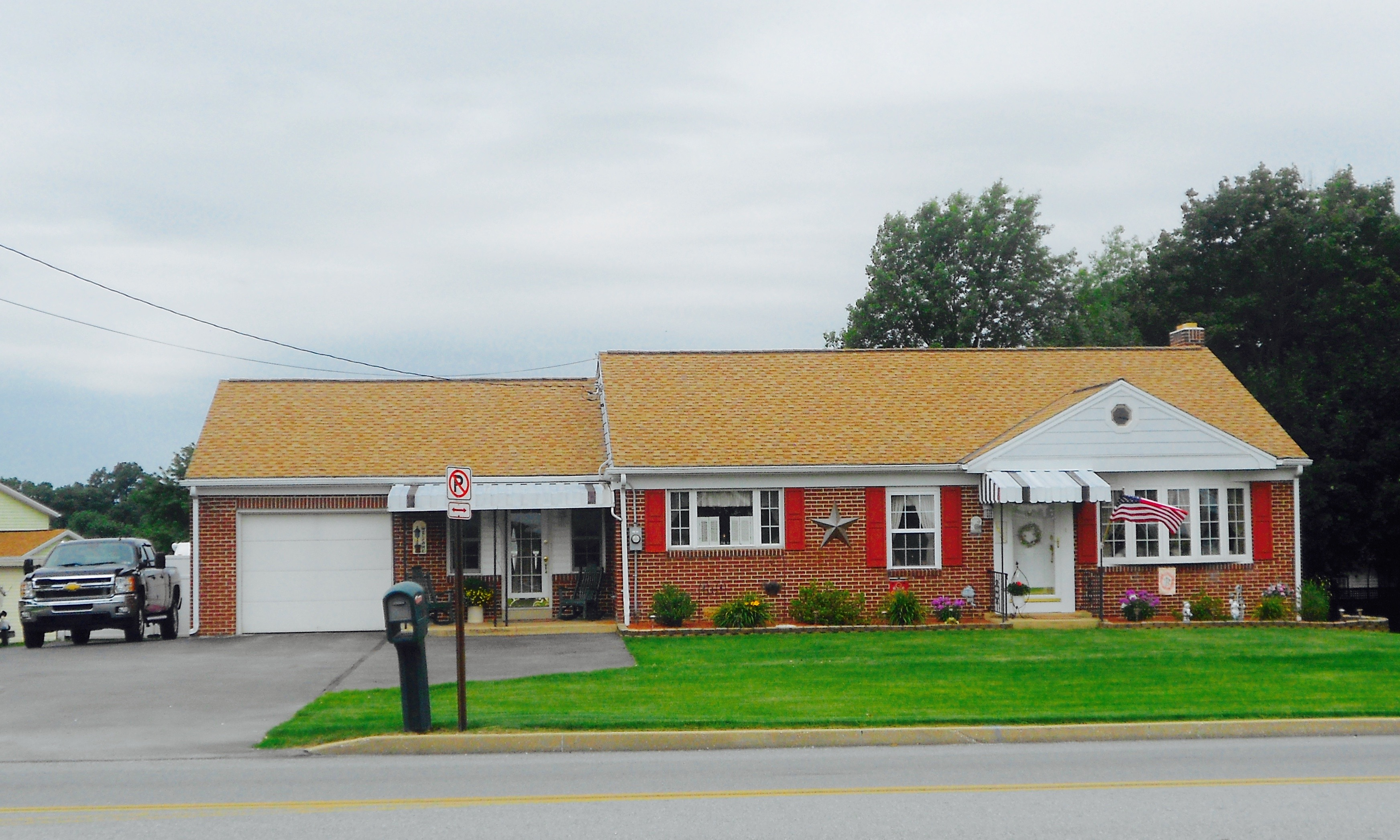 House in Penn Township, York County, Pennsylvania. This is on 94 south of Parkville on the little strip of land north of West Manheim Township, across from the mall